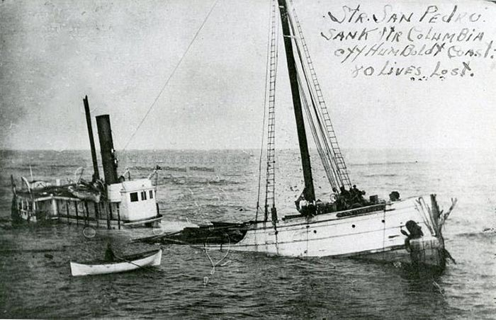 San Pedro existed between 1899 and 1920. This photograph was taken in 1907, several hours after the collision with the SS Columbia.